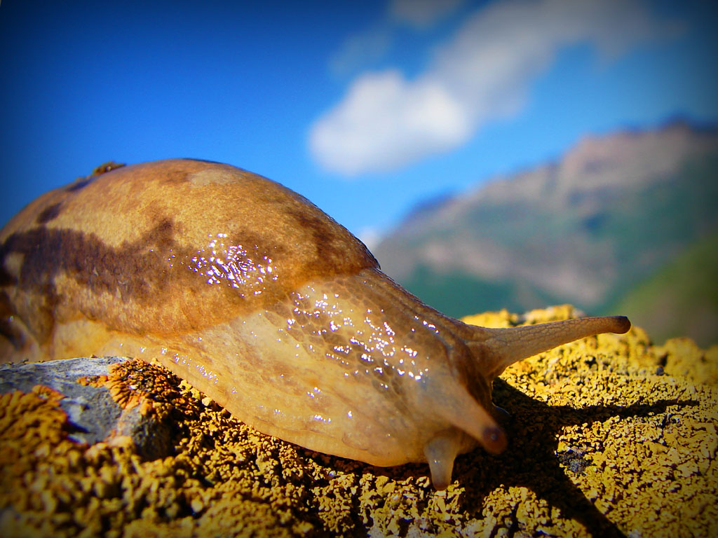 an unidentified gastropod from Waliabad, Māzandarān Province, Iran